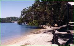 Oatley Park